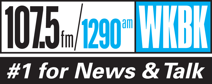 This is the Logo of WKBK (As of February 2015).